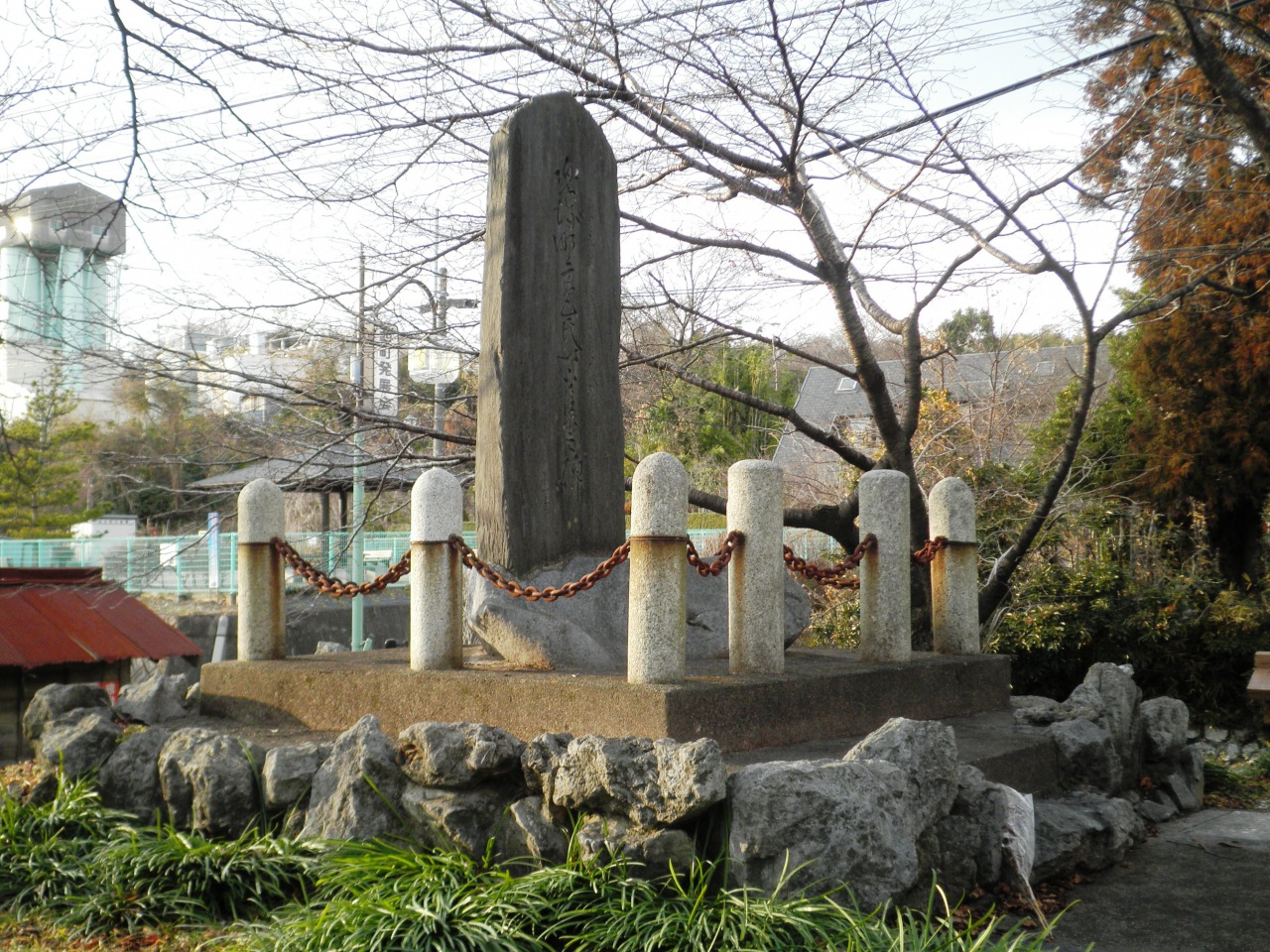 Kabuto-zuka in Ōgaki, Gifu.